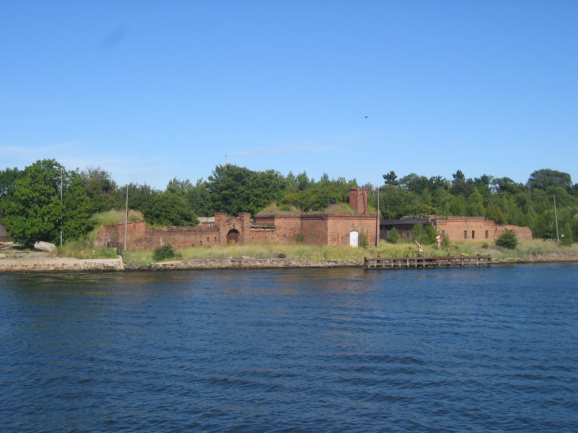 Szaniec Mewi - a 19th century prussian fortification work in the harbour of Gdańsk.